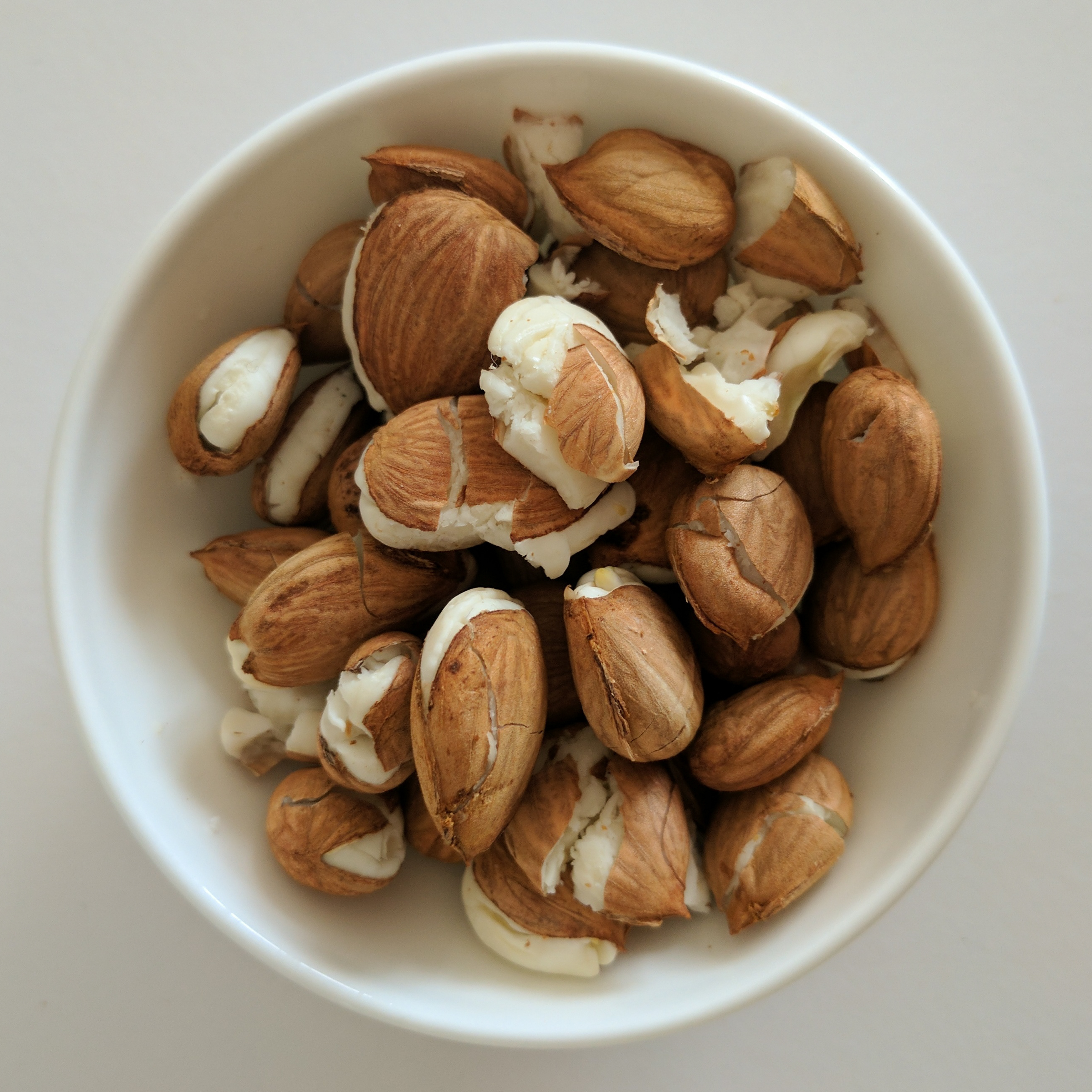 Sweet apricot kernel in a tiny bowl (⌀ 7cm)